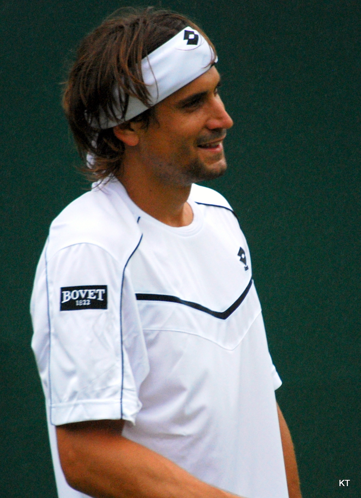 The Boodles, Stoke Park, 2011.